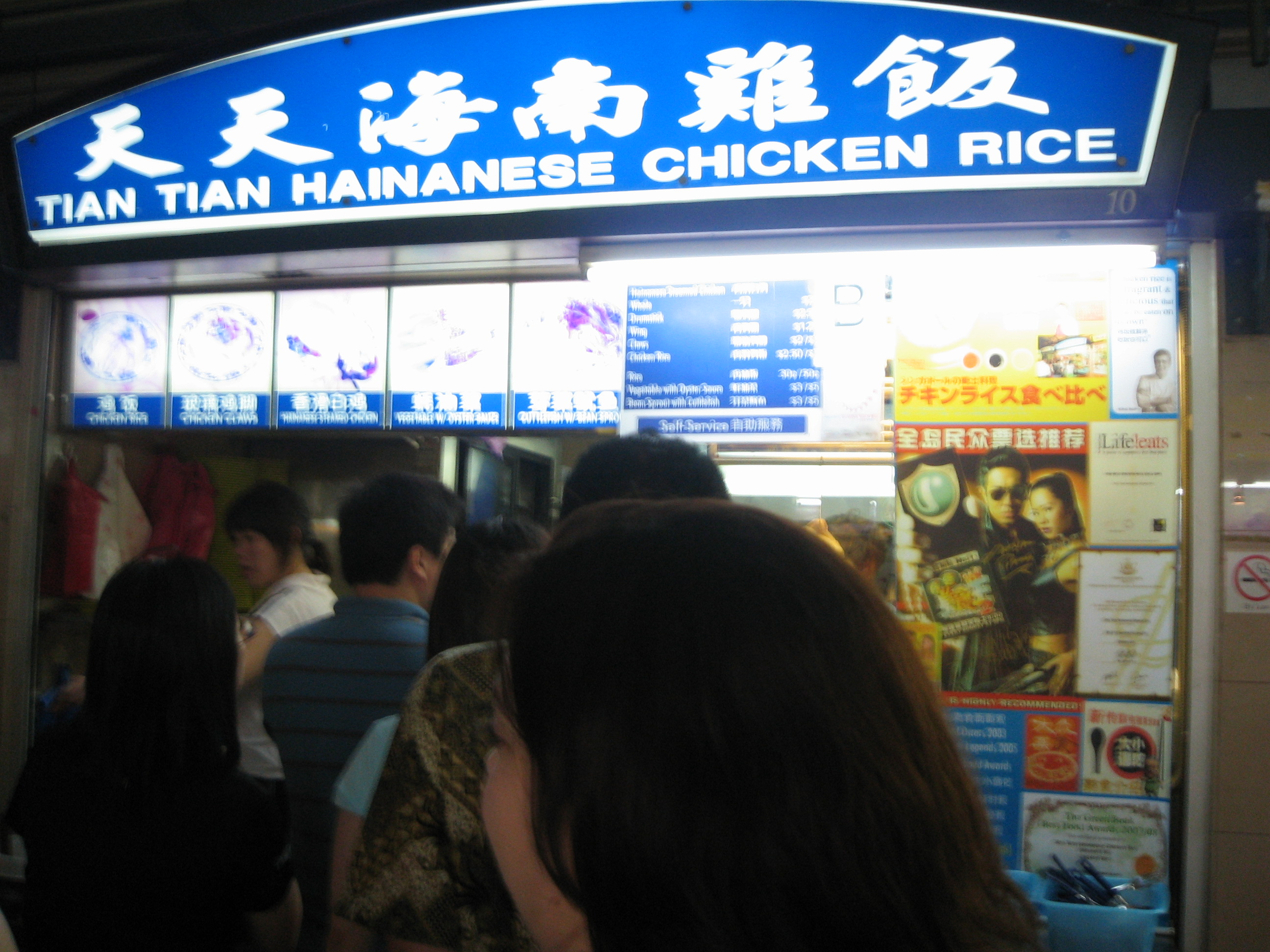 The Tian Tian Hainanese Chicken Rice stall found at Maxwell Food Centre in Singapore.